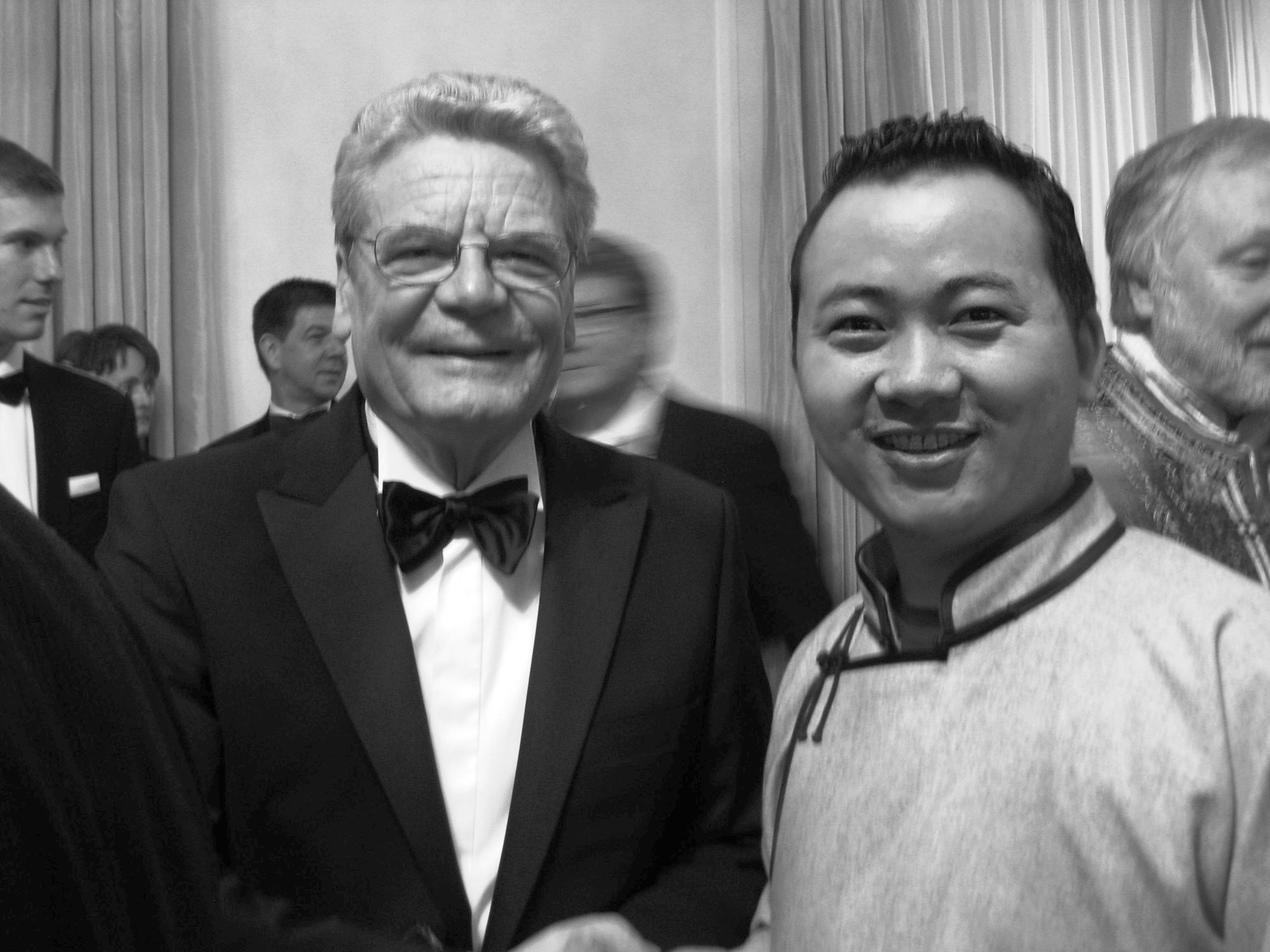 Joachim Gauck, President of Germany and Artist Otgonbayar Ershuu, Bellevue Palace, Berlin 2012